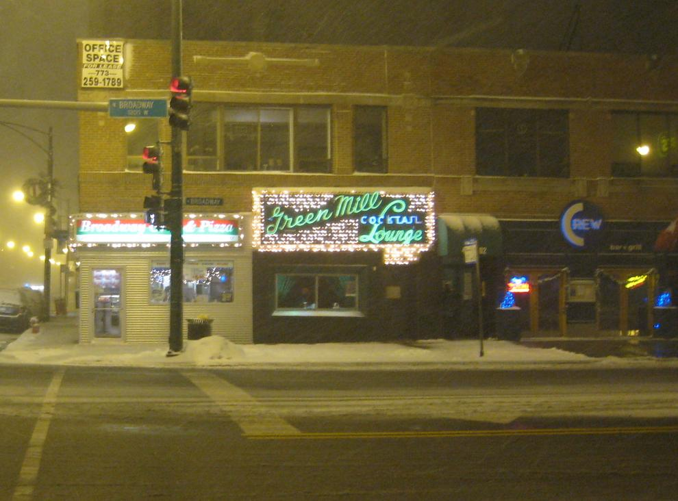 Green Mill Jazz Club in Uptown, Chicago